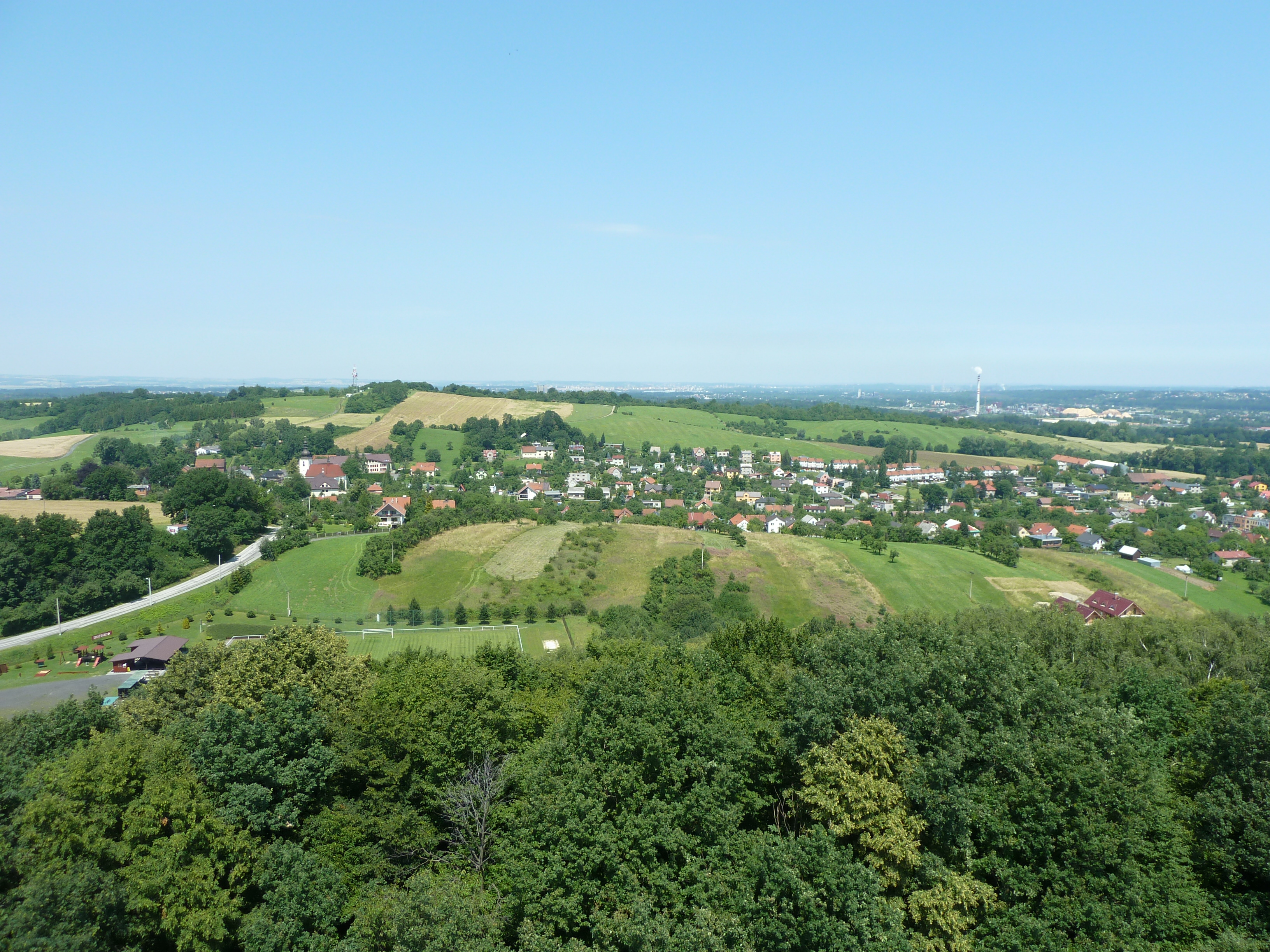 village Staříč (north-eastern Moravia, Czech Republic)